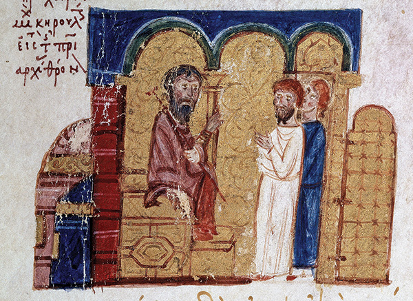 Cardinal Humbert de Silva Candida in dispute with Kerularij patriarch of Bizanc in 1054